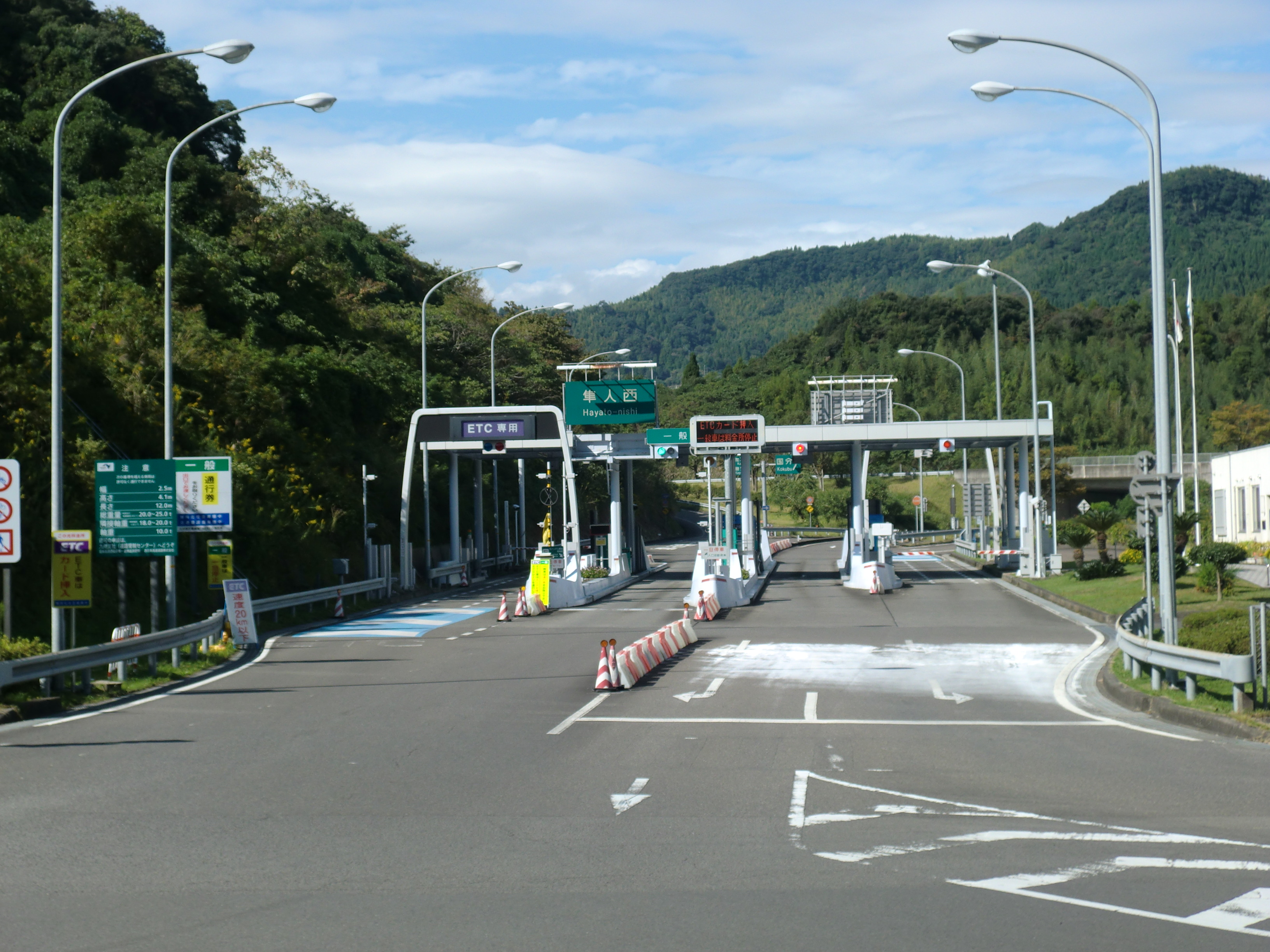 Hayato-nishi Interchange